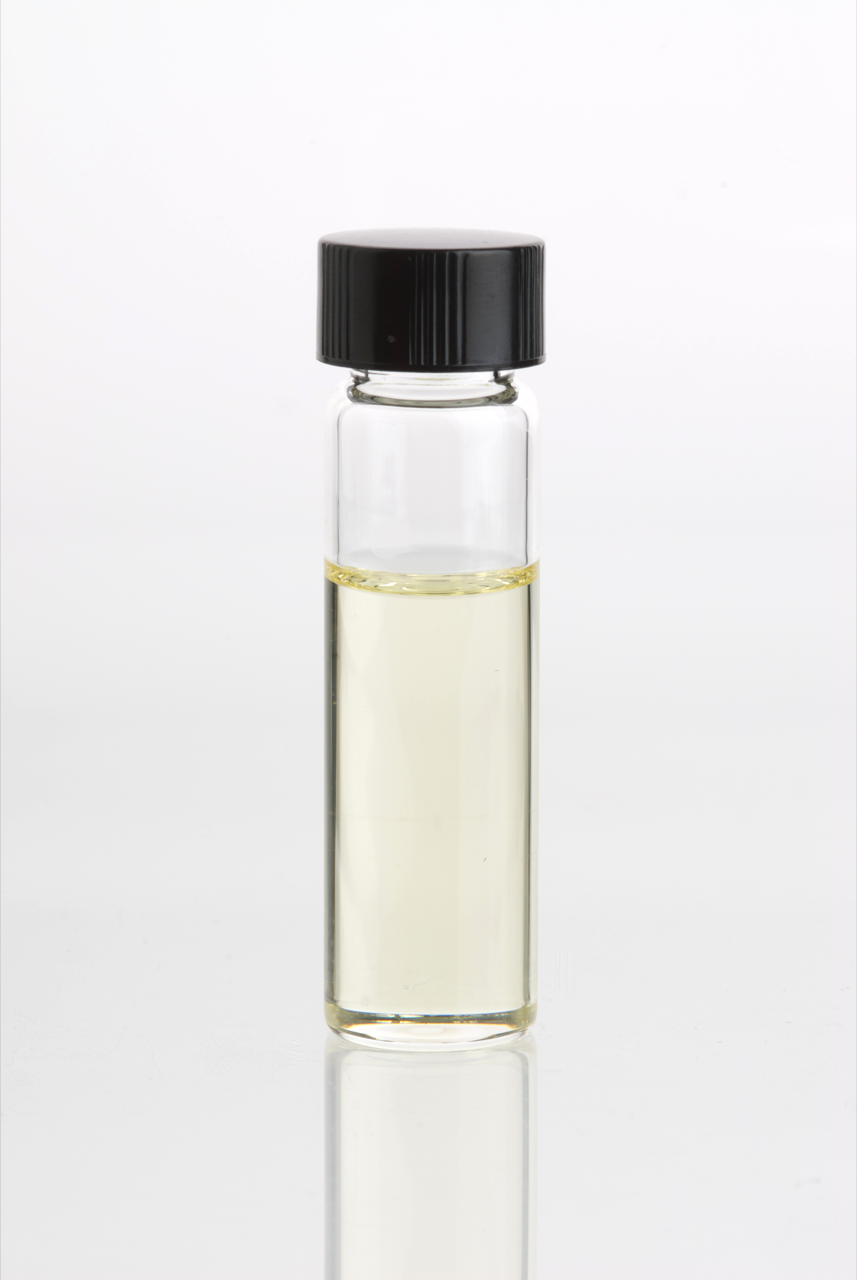 Glass vial containing Frankinsence (Boswellia carteri) Essential Oil